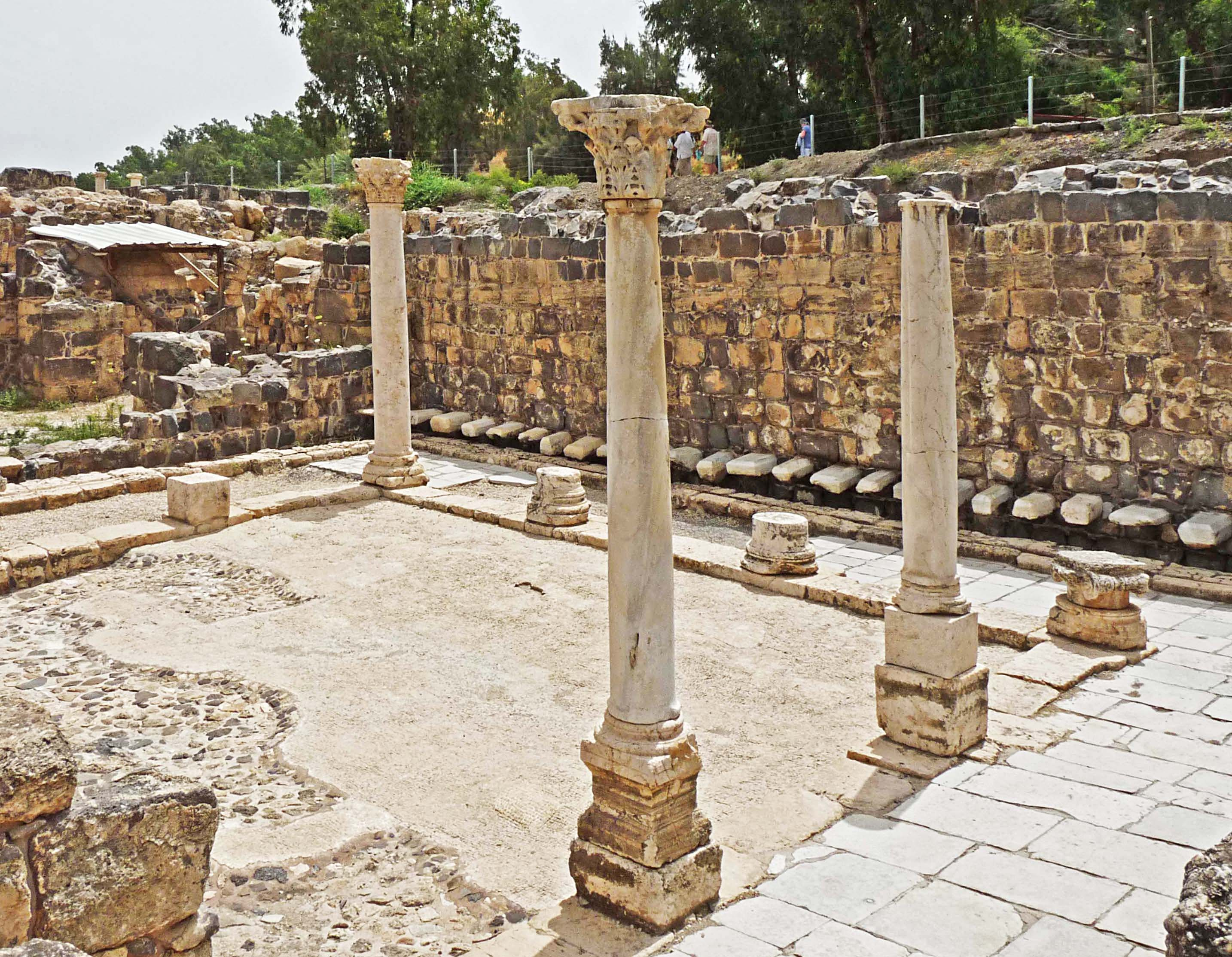 Roman latrines in Beit She'an, Israël